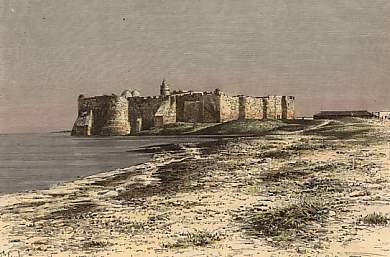 Wood engraving drawn by Taylor, engraved by Méaulle. 1886. 19x13cm.